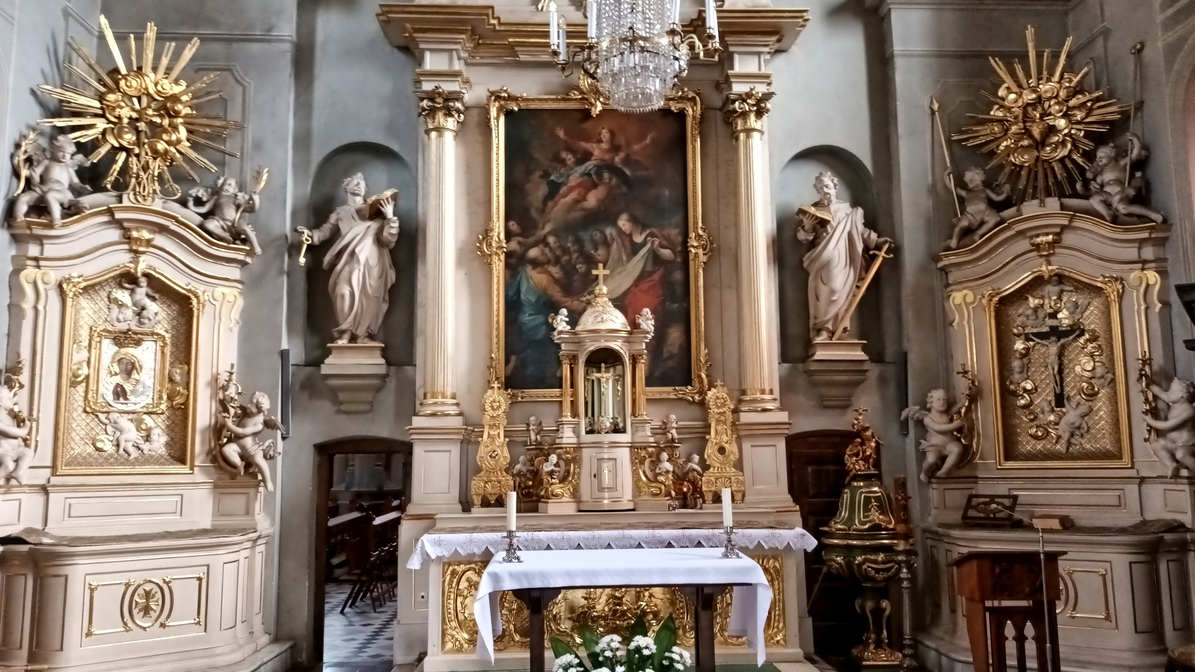 Białystok - catholic cathedral of the Assumption of the Blessed Virgin Mary (altars and interior of the "old church" from XVII century)